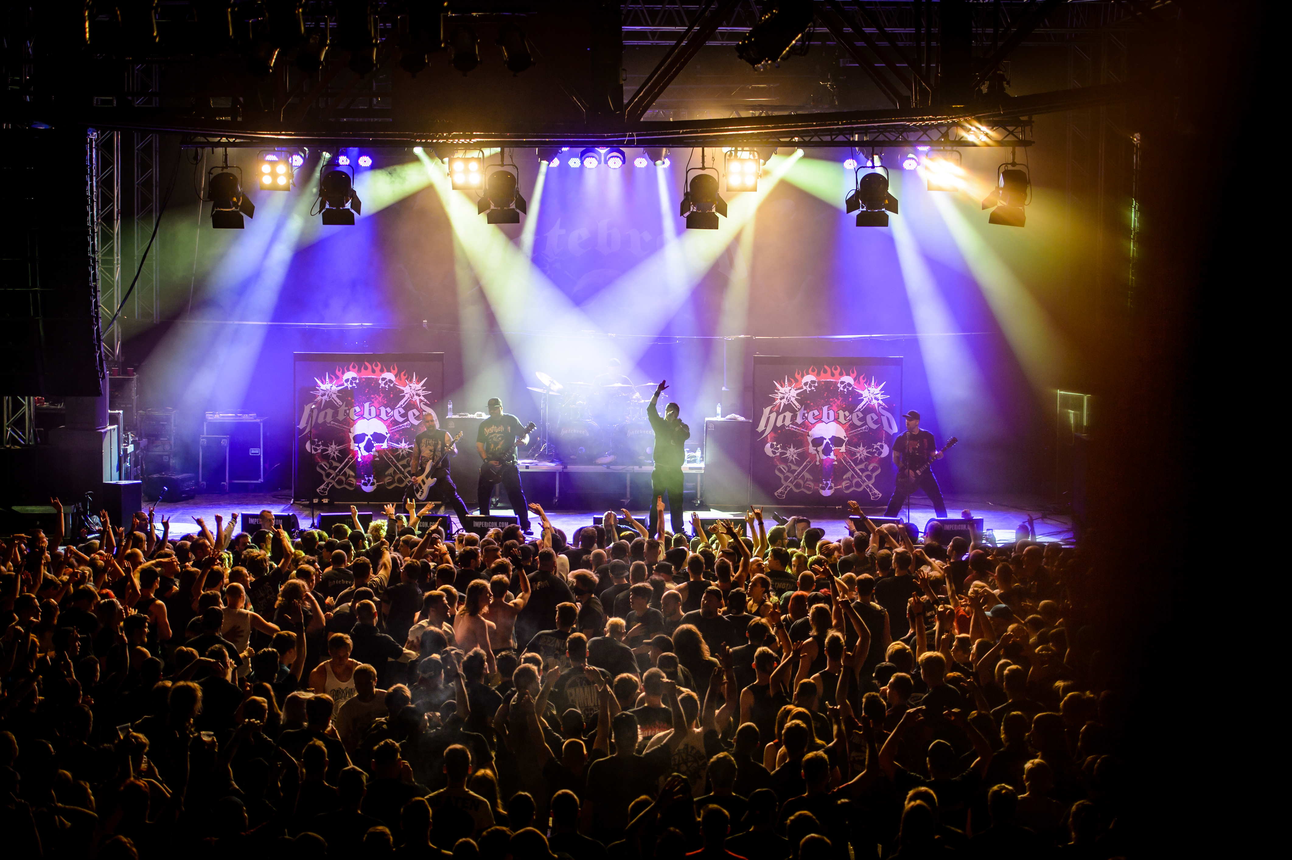 Hatebreed; Impericon Festival 2016 - Oberhausen